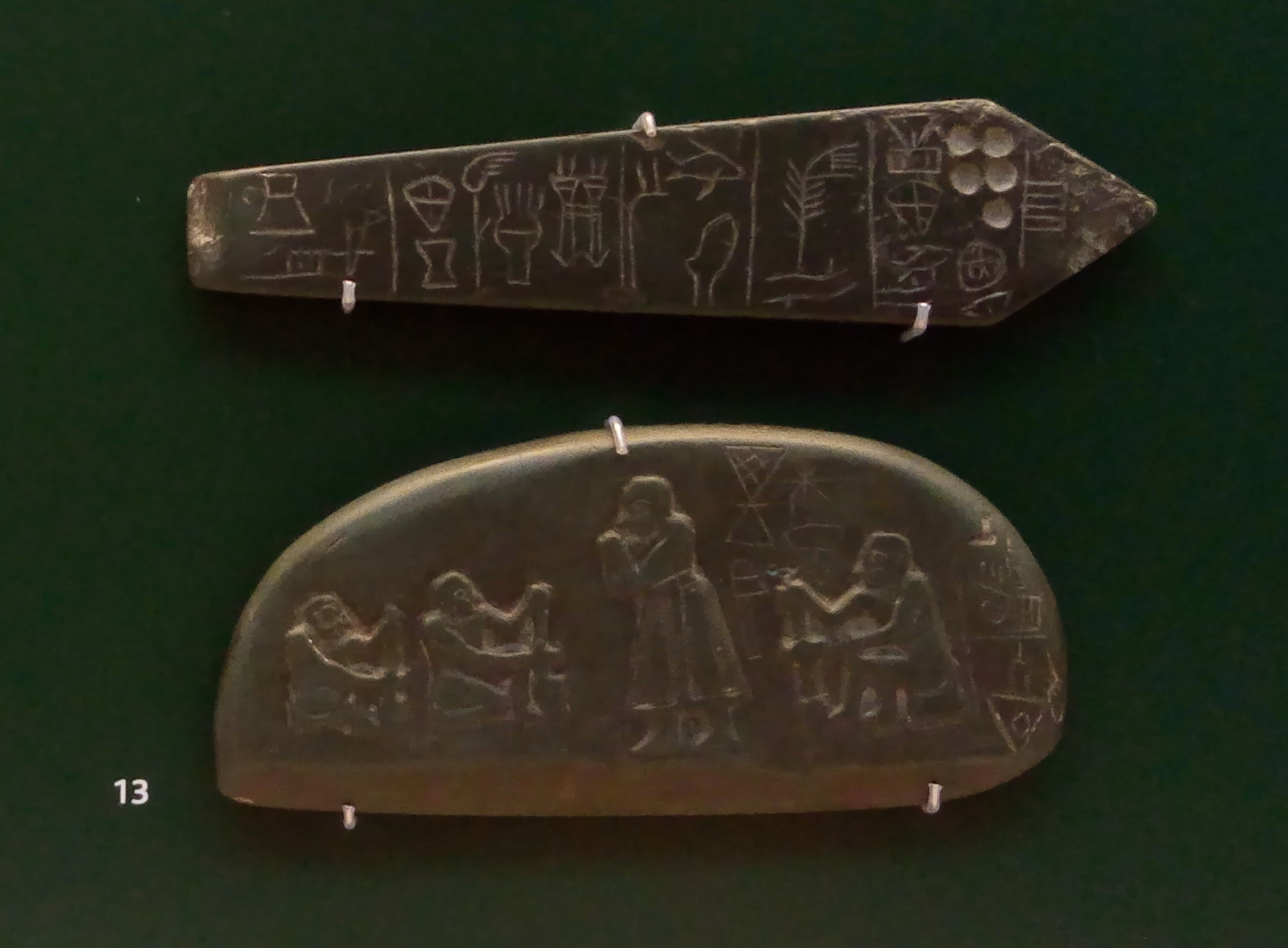 Stone tablets, "Blau momuments". Record a land sale. Datation: Jemdet-Nasr period (c. 3000-2900 BC) or Early Dynastic I (c. 2900-2700 BC). Possibly from Tell Uqair. BM 86260-1.